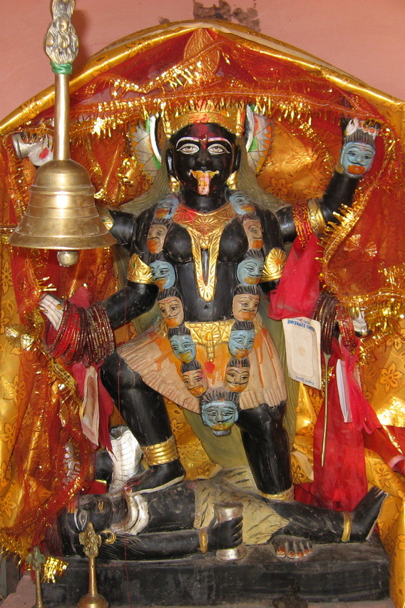 Unveiled Kali statue, Palamo, Himachal Pradesh, India